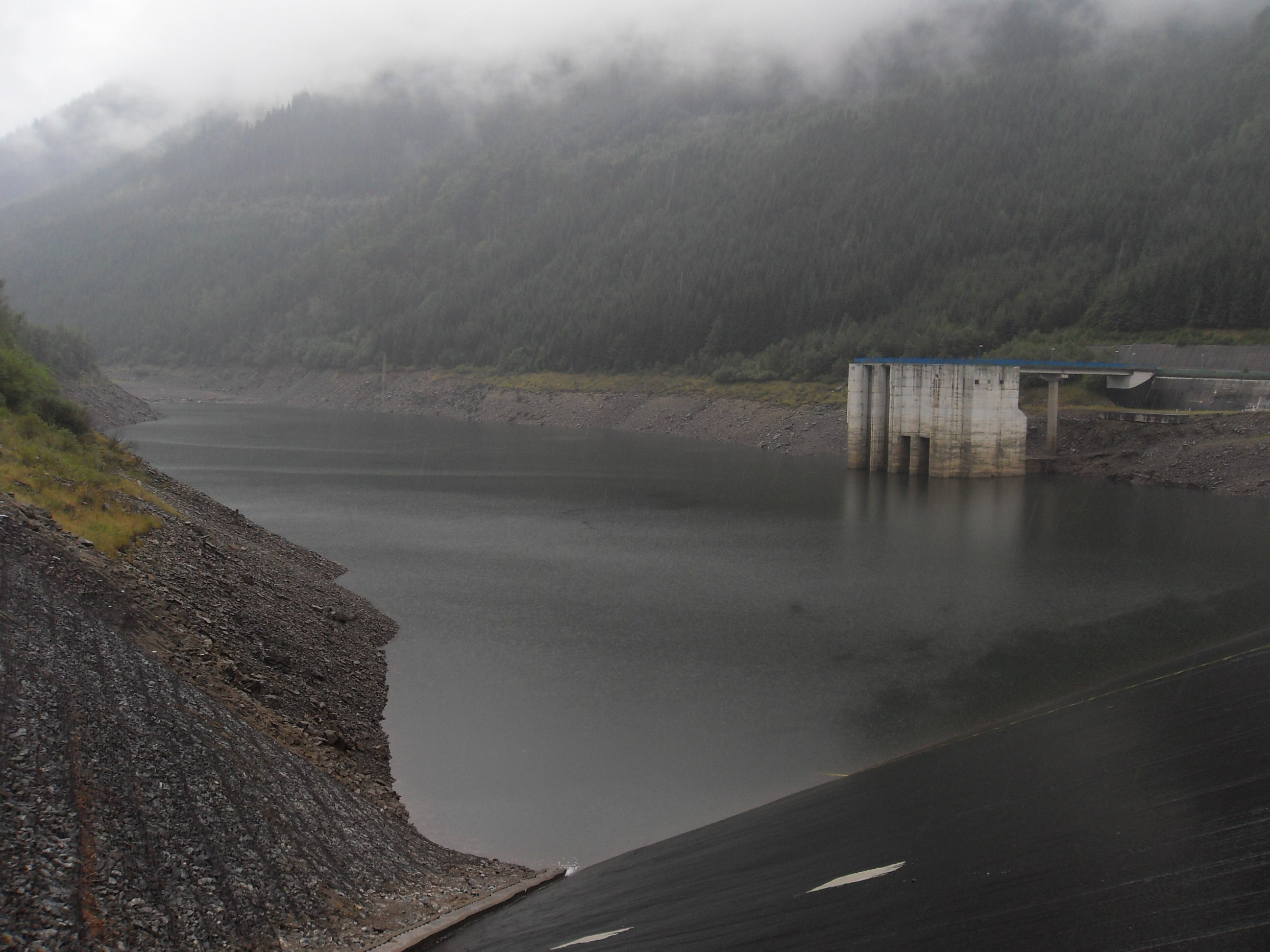 Lower reservoir of Dlouhé stráně Hydro Power Plant, Rejhotice, Loučná nad Desnou, Šumperk district, Czech Republic